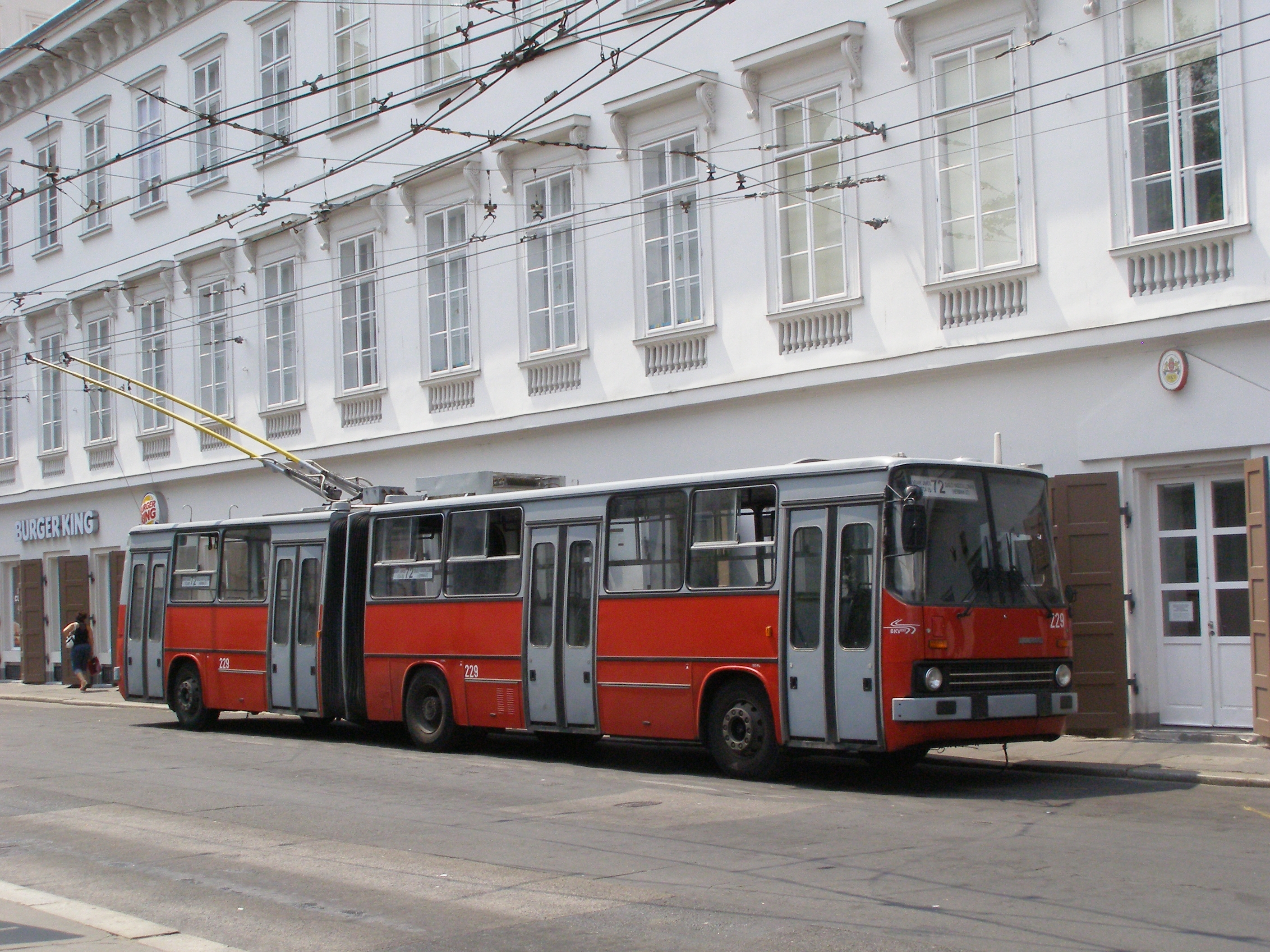 Budapest GVM-Ikarus 280T #229 on line 72 terminus in Podmaniczky Frigyes square